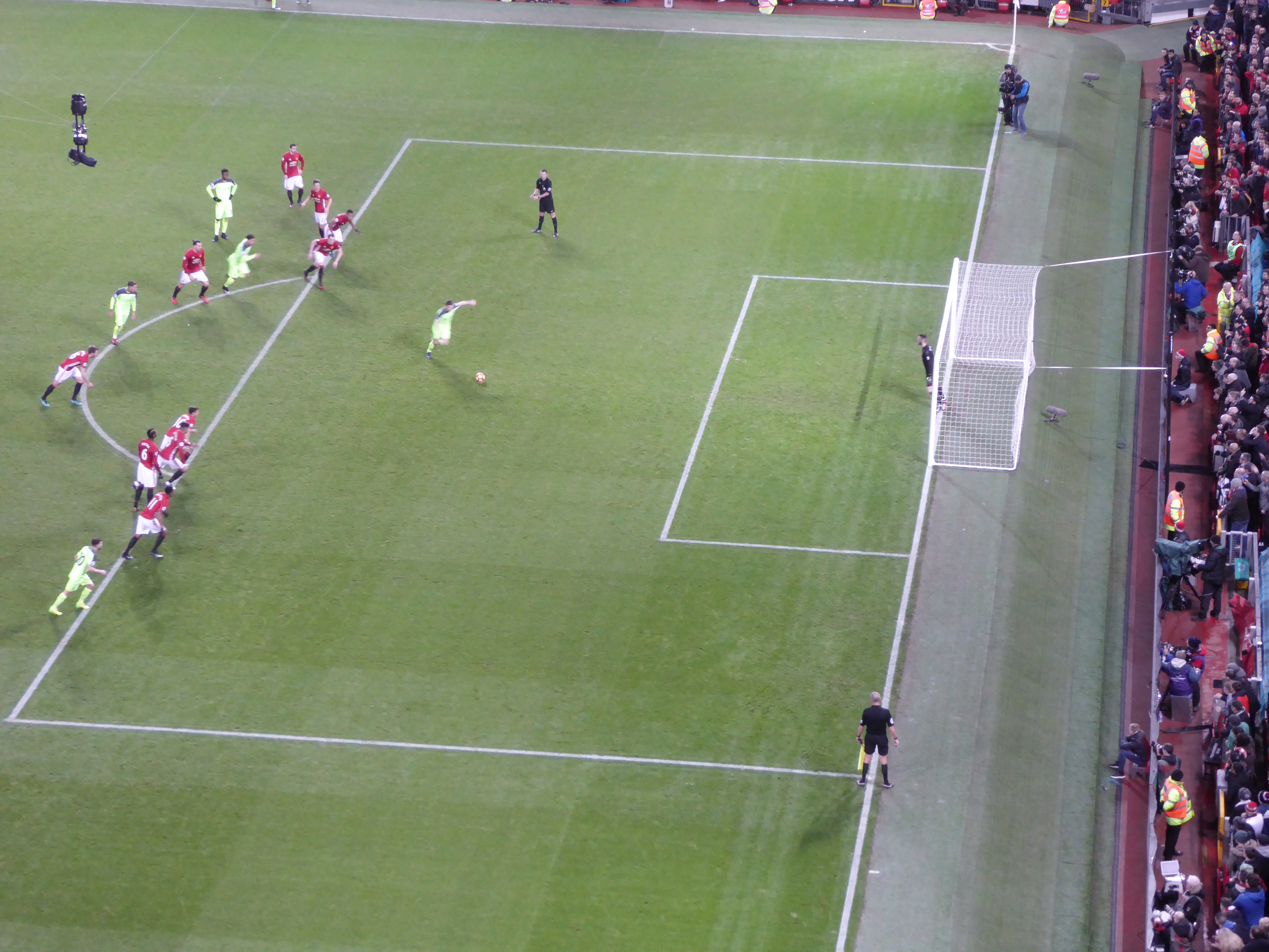 Manchester United v Liverpool (1-1), Premier League, Old Trafford, Manchester, Greater Manchester, England, January 2017